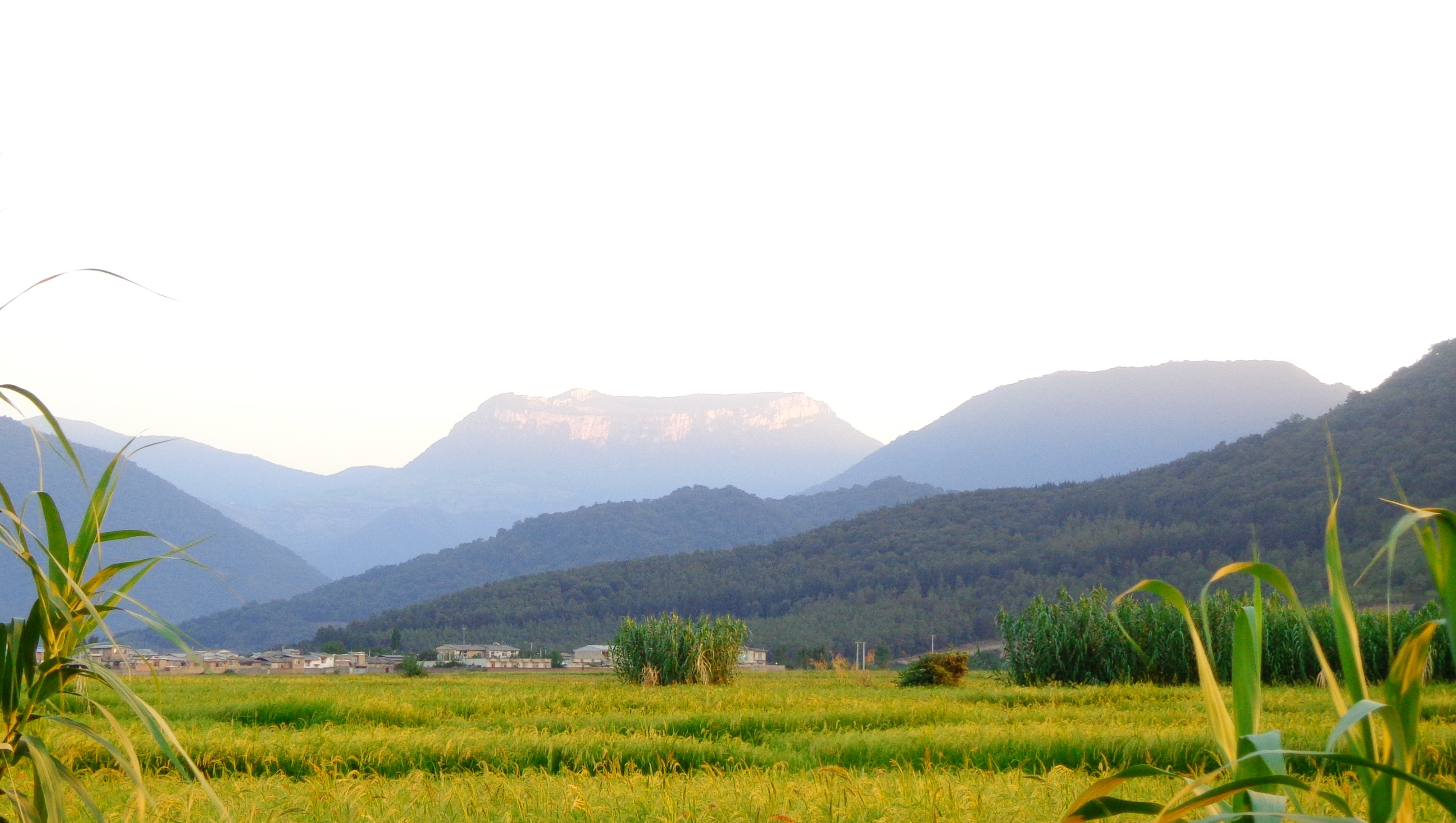 تابستان نسبتاً مرطوب رامیان